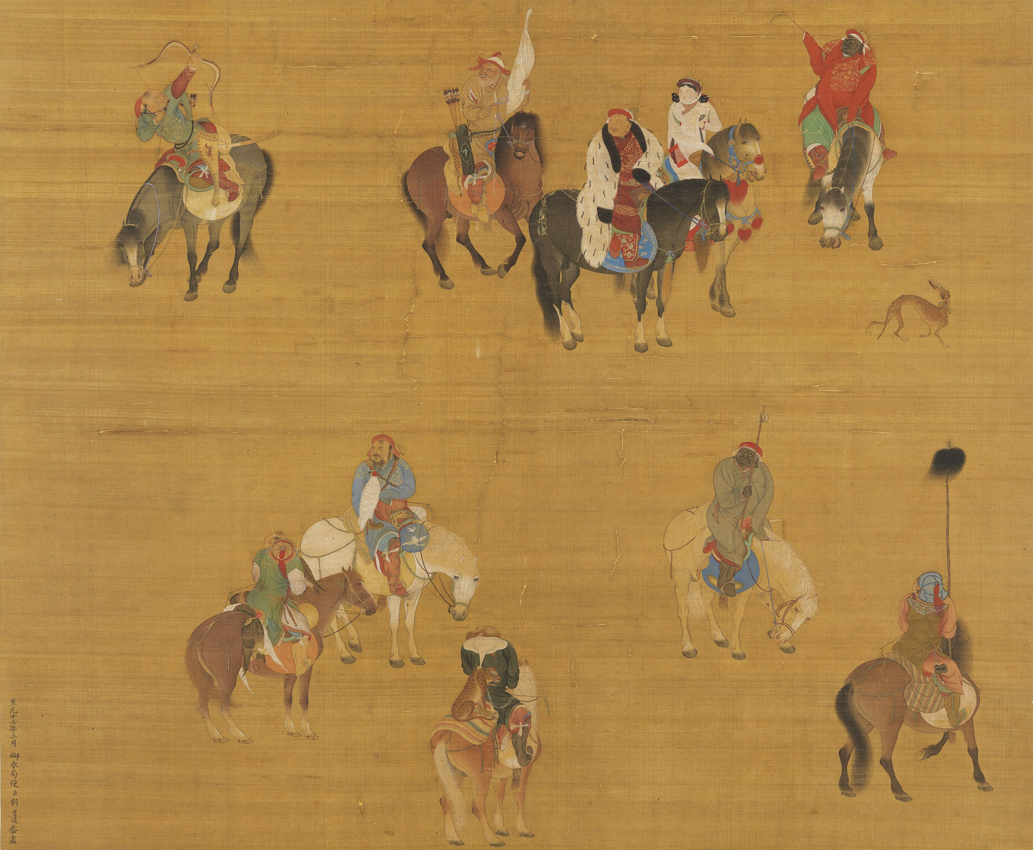 Kublai Khan on a hunting expedition, painted on a silk handscroll (fragment). This was painted in the year 1280 by the Chinese court artist Liu Guandao. Notice how Kublai Khan is wearing distinct Mongolian-style furs over Chinese Han silk brocades. A description of this image is featured on page 174 of Patricia Ebrey's Cambridge Illustrated History of China. Scroll painting is located at the National Palace Museum, Taipei.